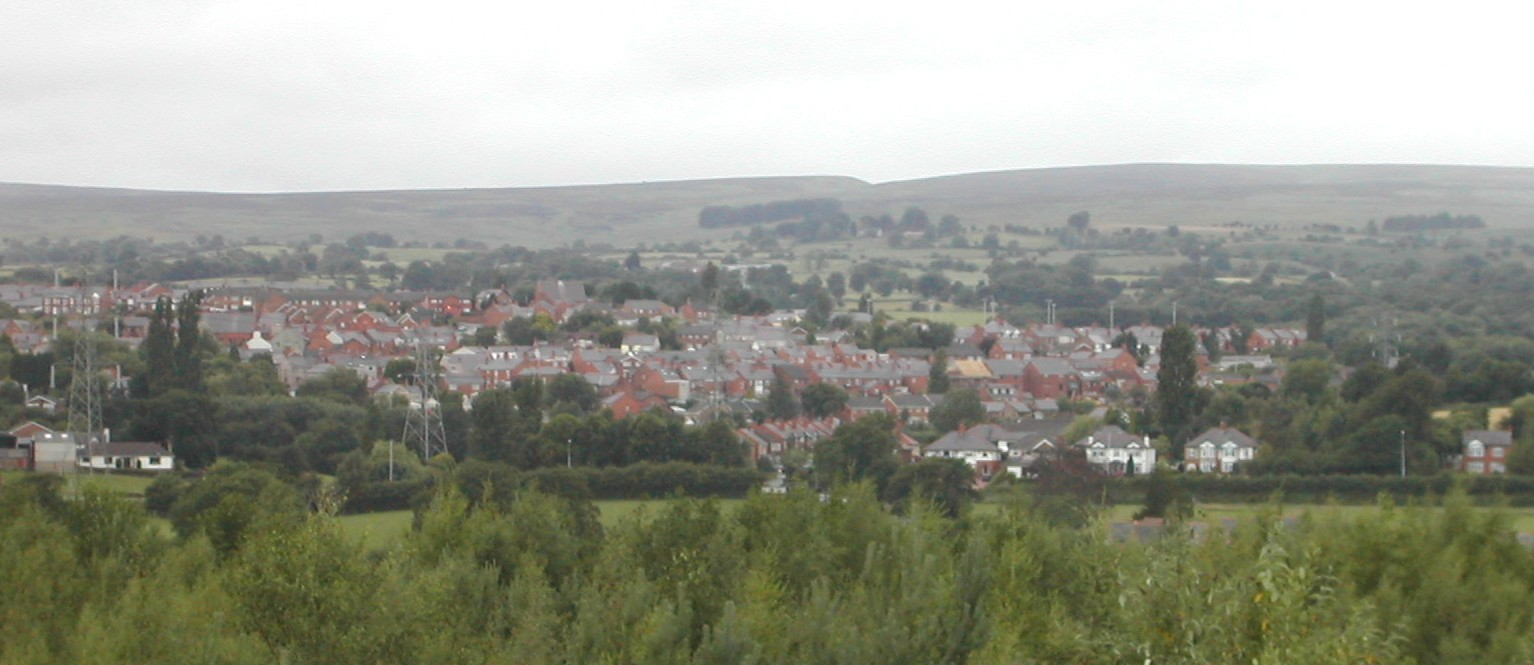 View of Ponciau village from Bonc Yr Hafod Country Park.